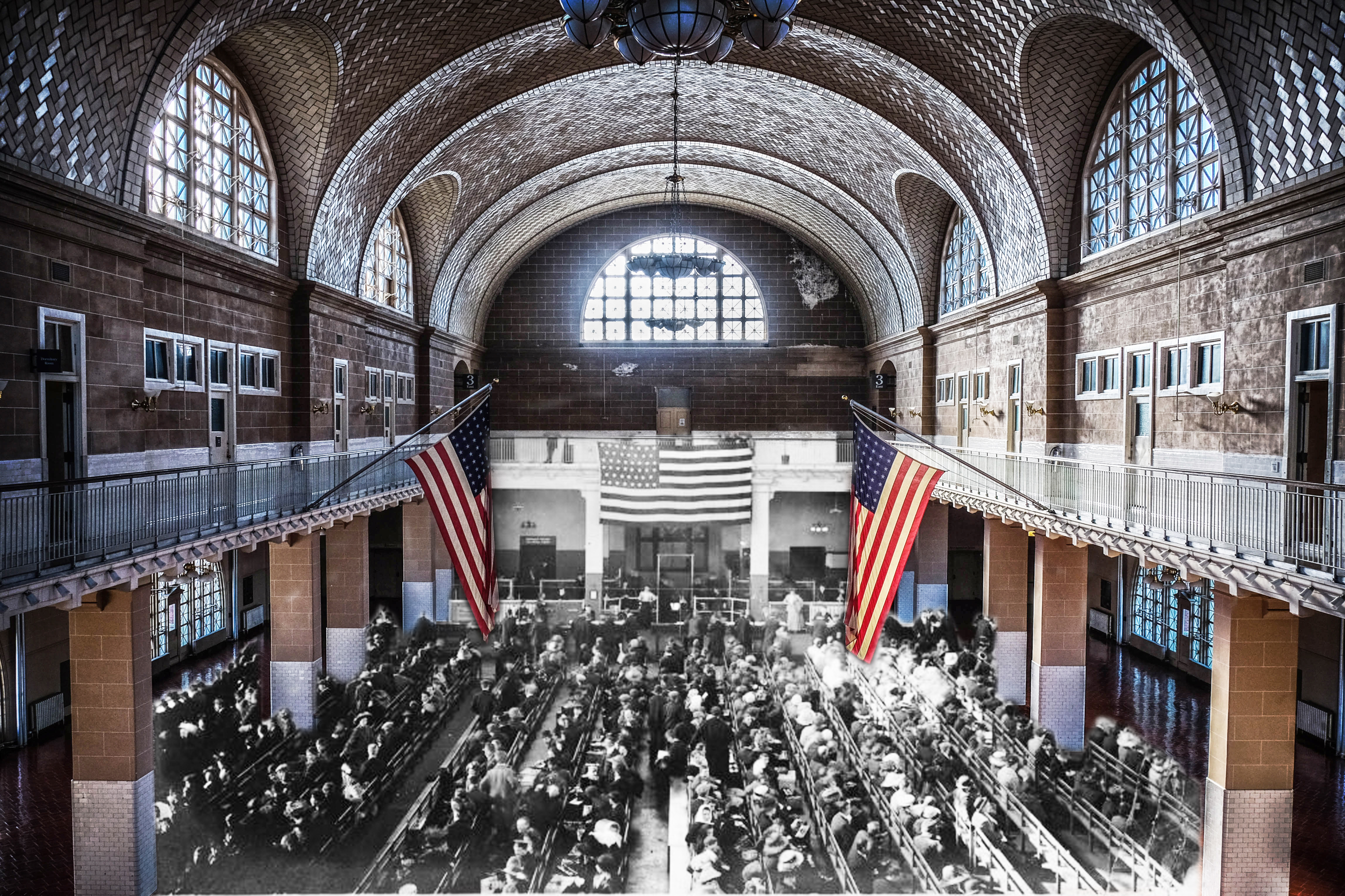 Overlaying of an old photo (46 star flag) and the exact same shot of current Ellis Island (48 star flag) taken on the Empty Ellis tour. Site: Ellis Island